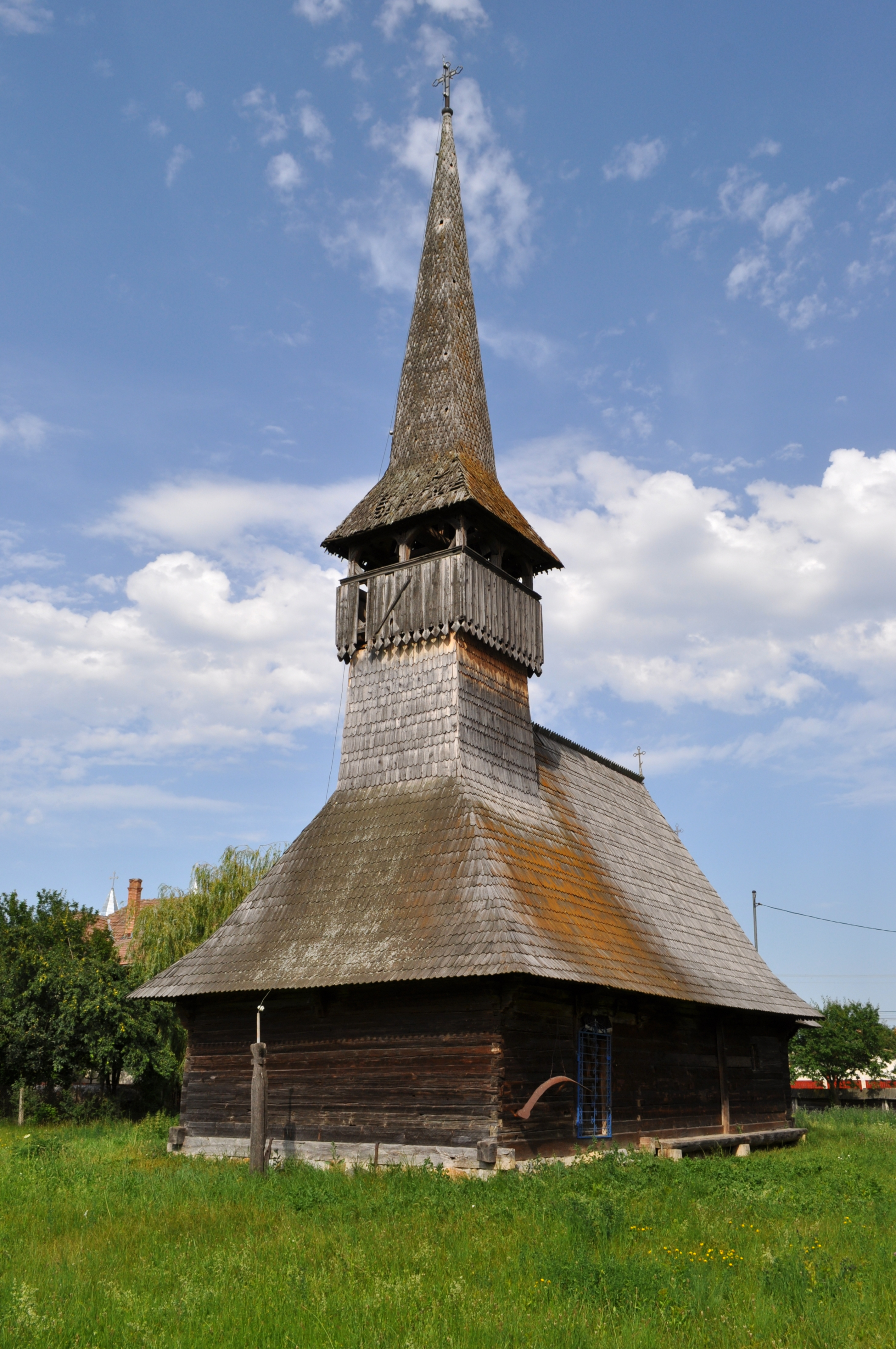 Wooden church in Chețani, Mureș county, Romania